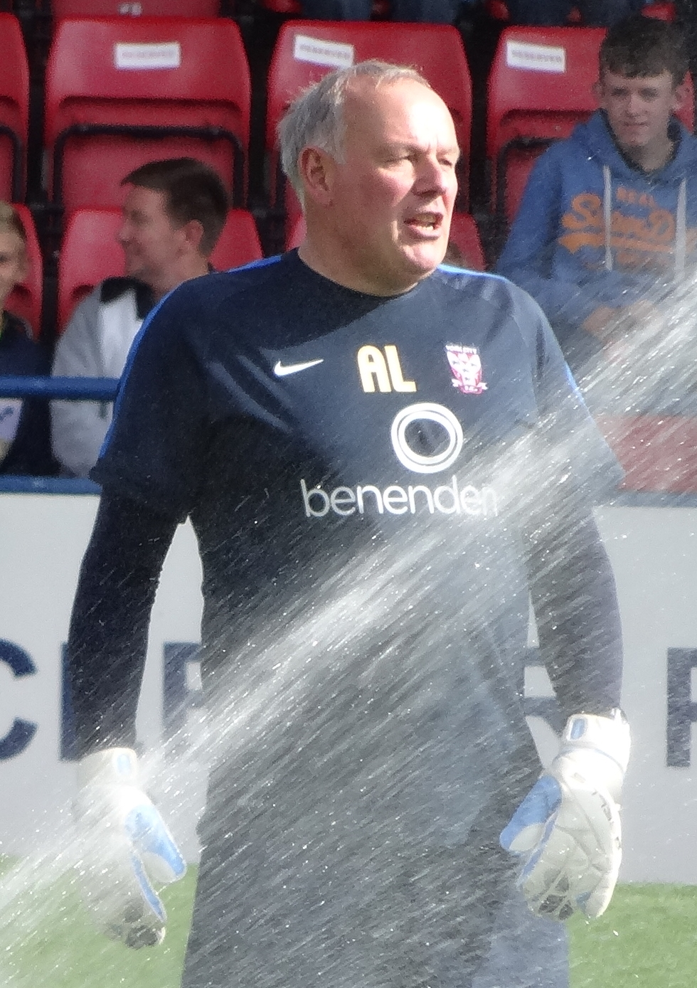 Andy Leaning before for York City's match against Carlisle United at Bootham Crescent, York on 19 September 2015